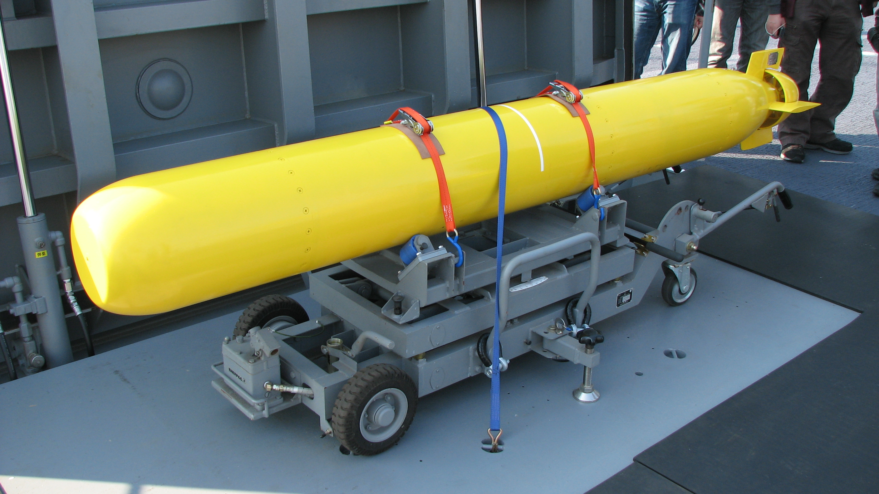 Type97 torpedo (dummy)